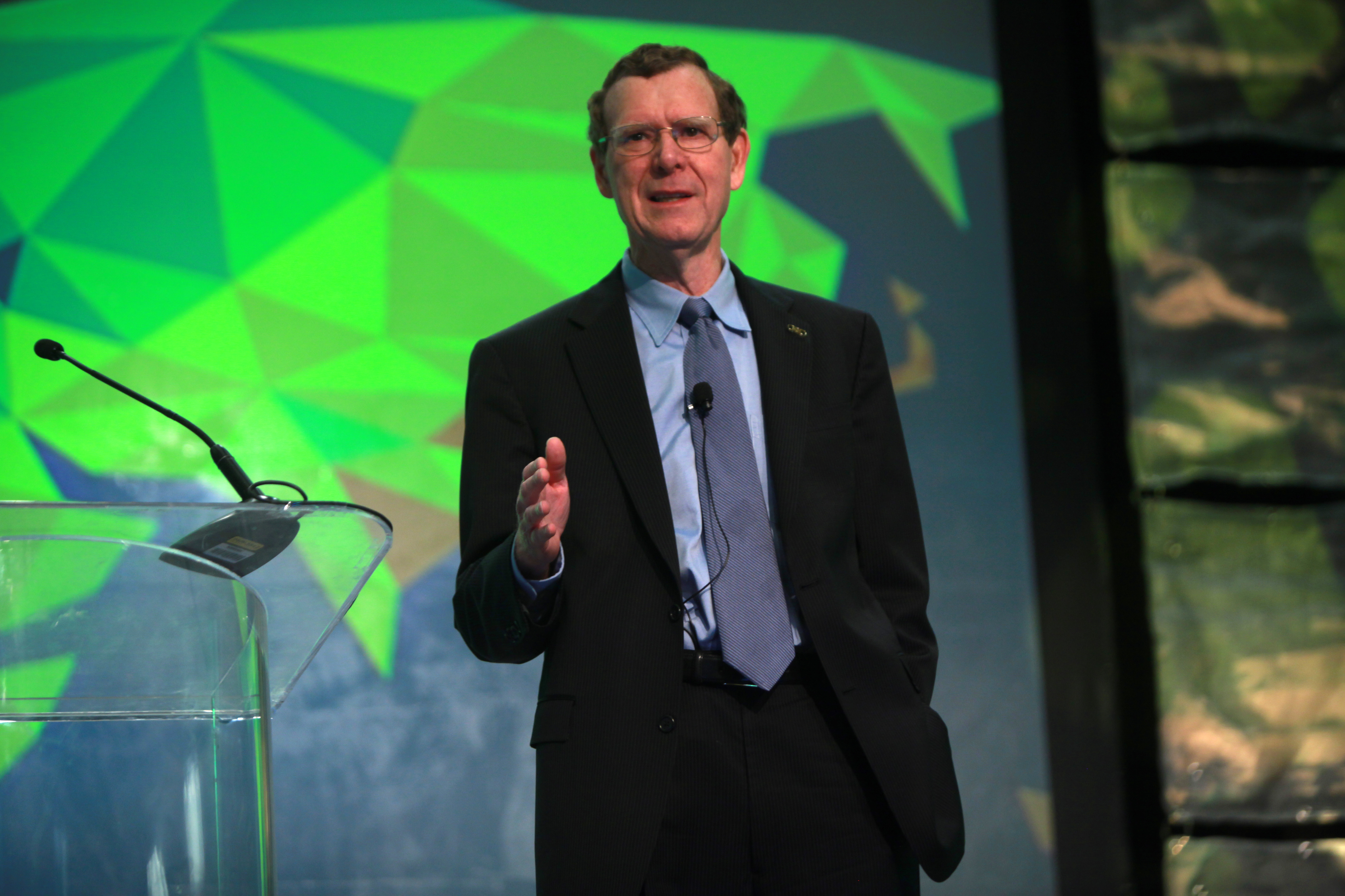 John A. Allison IV of the Cato Institute speaking at the 2014 International Students for Liberty Conference (ISFLC) in Washington, D.C.